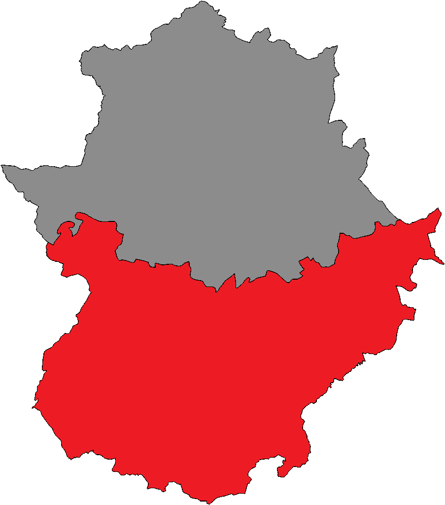 Extremaduran Assembly district of Badajoz.